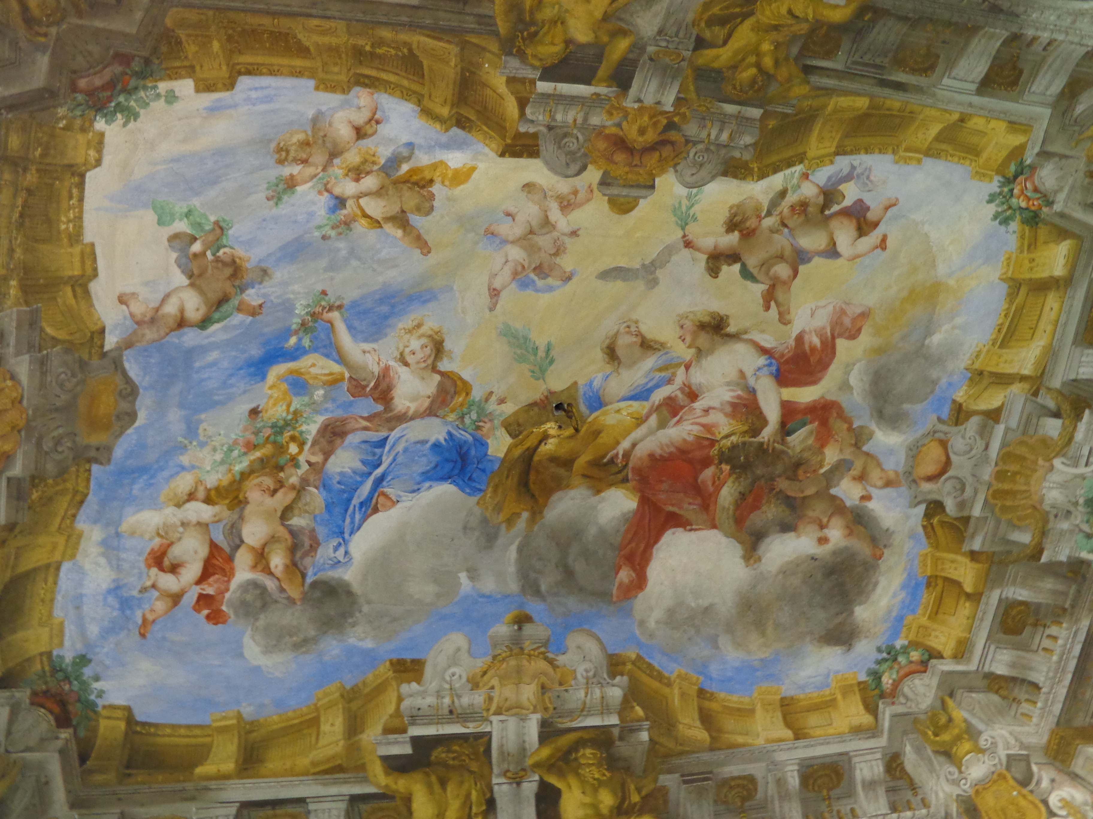 Balbi-Senarega palace, Genoa